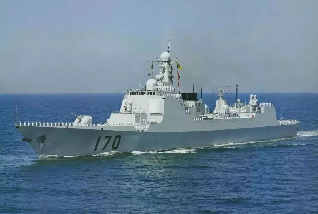 CSR Report RL33153 China Naval Modernization: Implications for U.S. Navy Capabilities—Background and Issues for Congress by Ronald O'Rourke dated February 28, 2014. Page 23 - Figure 7. Luyang II (Type 052C) Class Destroyer Source: Photograph provided to CRS by Navy Office of Legislative Affairs, December 2010.